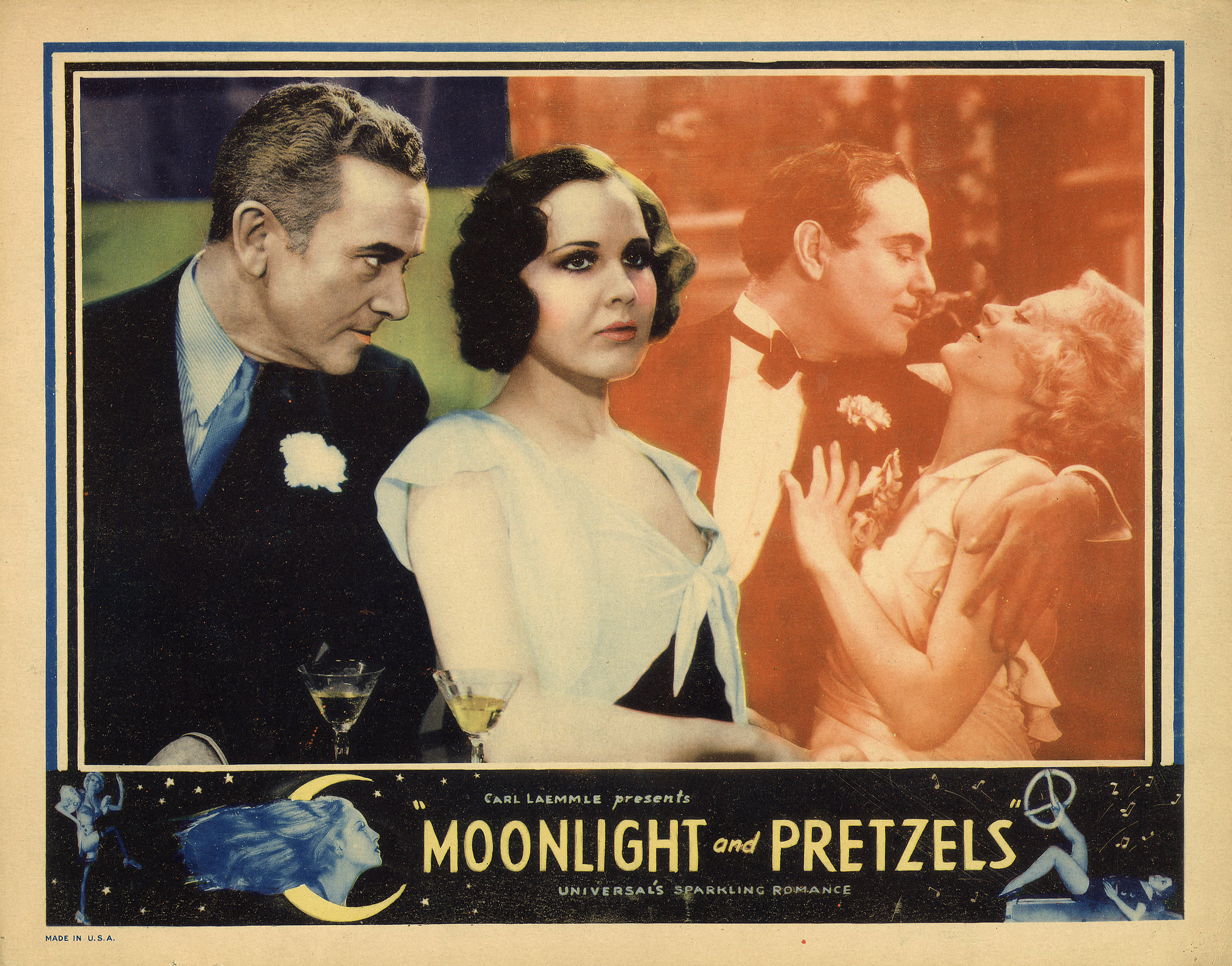 Lobby card for the American film Moonlight and Pretzels (1933).